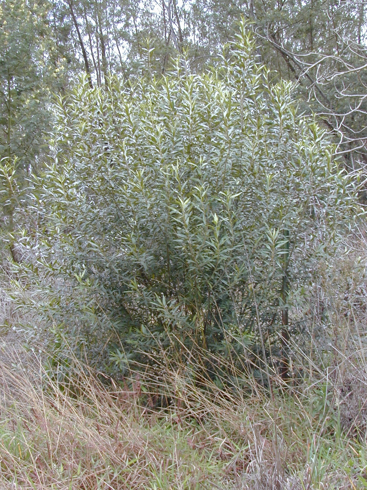 Olea europaea subsp. cuspidata (small shrub). Location: Maui, Kula